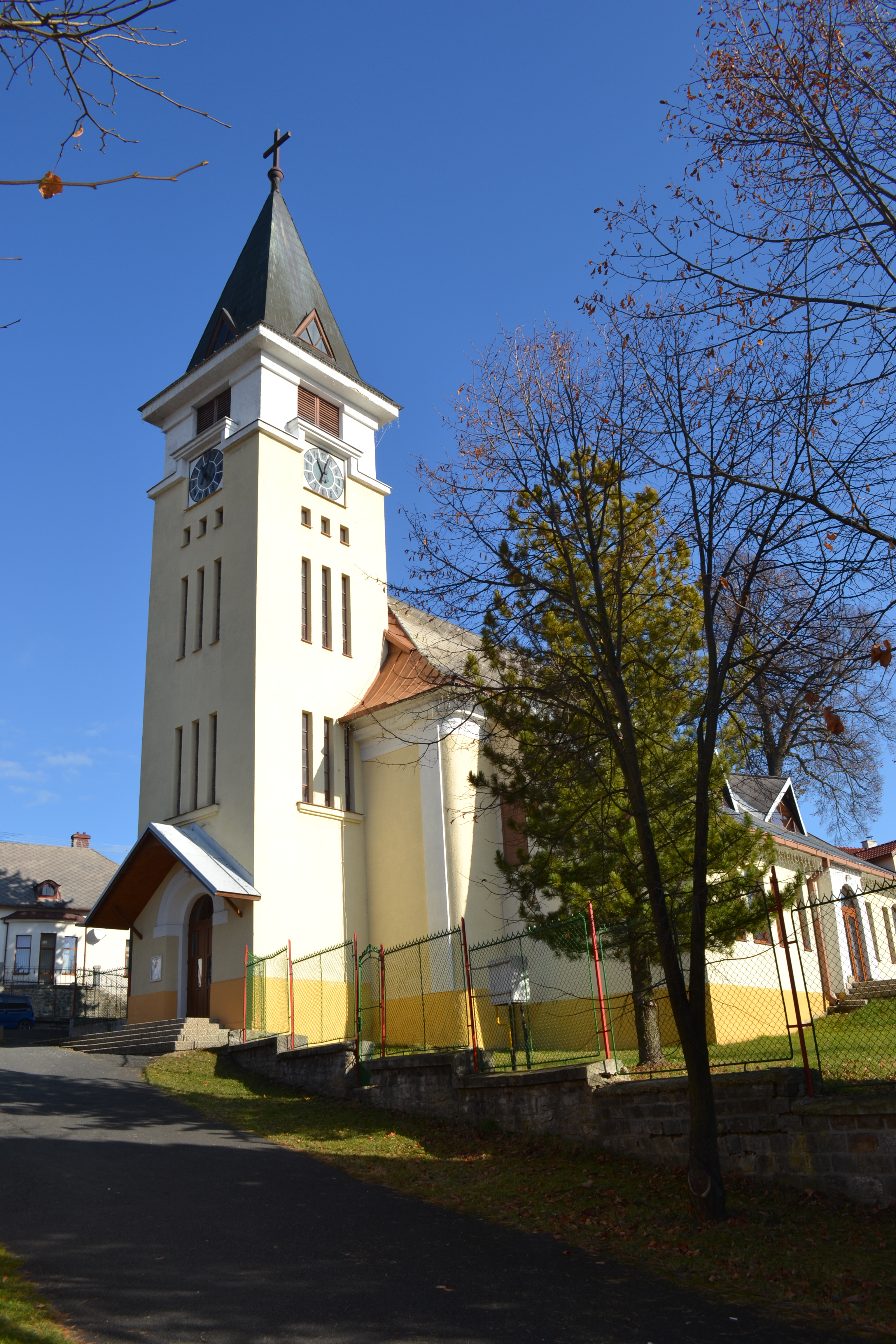 Evangelic church in ŠtrbaSlovenčina: Evanjelický kostol v Štrbe